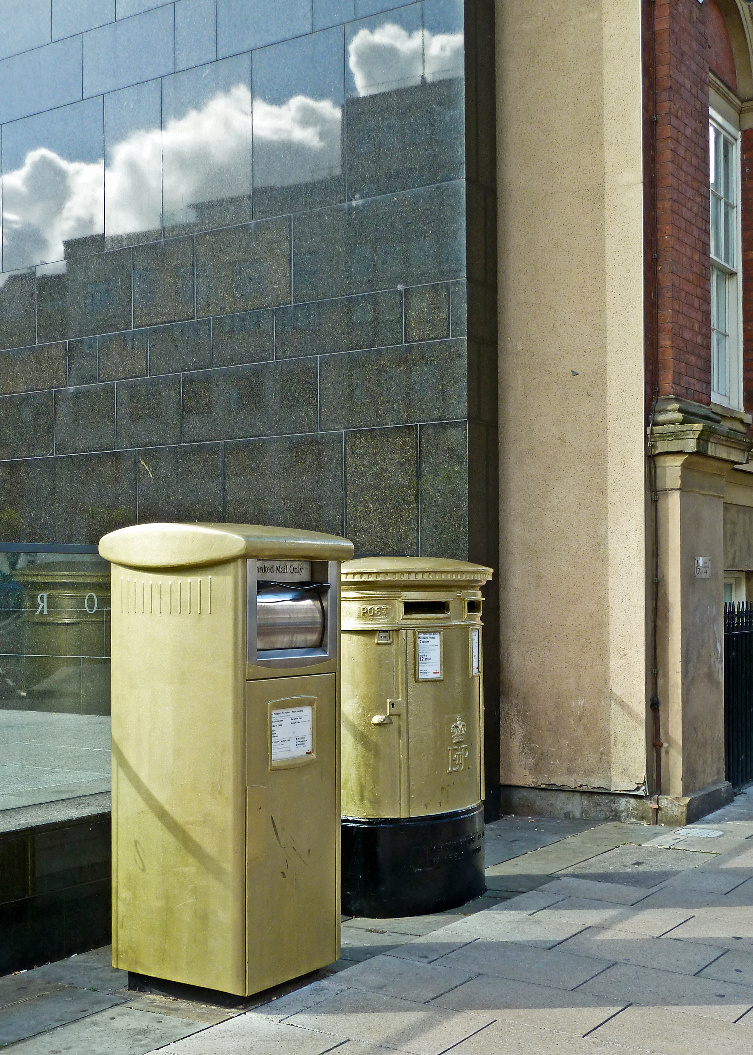 Nicola Adams' gold post box in Leeds, or pair of postboxes. Cookridge Street. Taken by Flickr user:Tim Green aka atouch on Tuesday the 11th of September 2012.